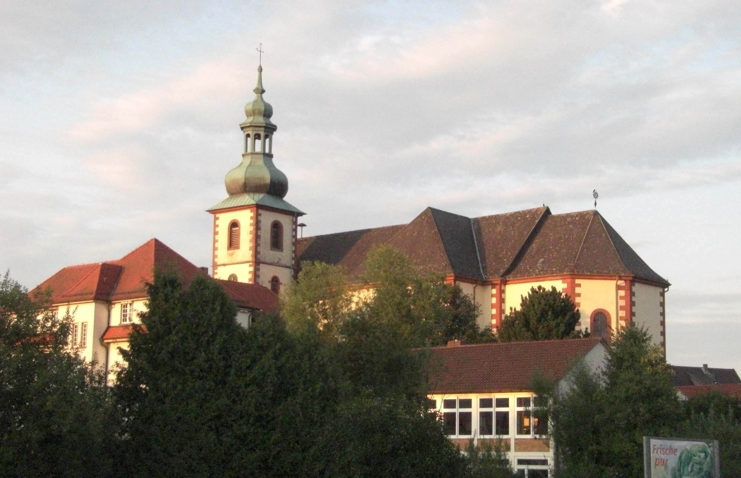 St. Goar church in Flieden